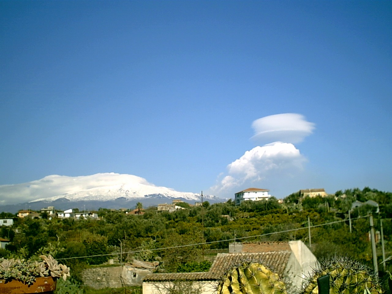 View of Etna with snow. It's also viewable the characteristic spheric cloud